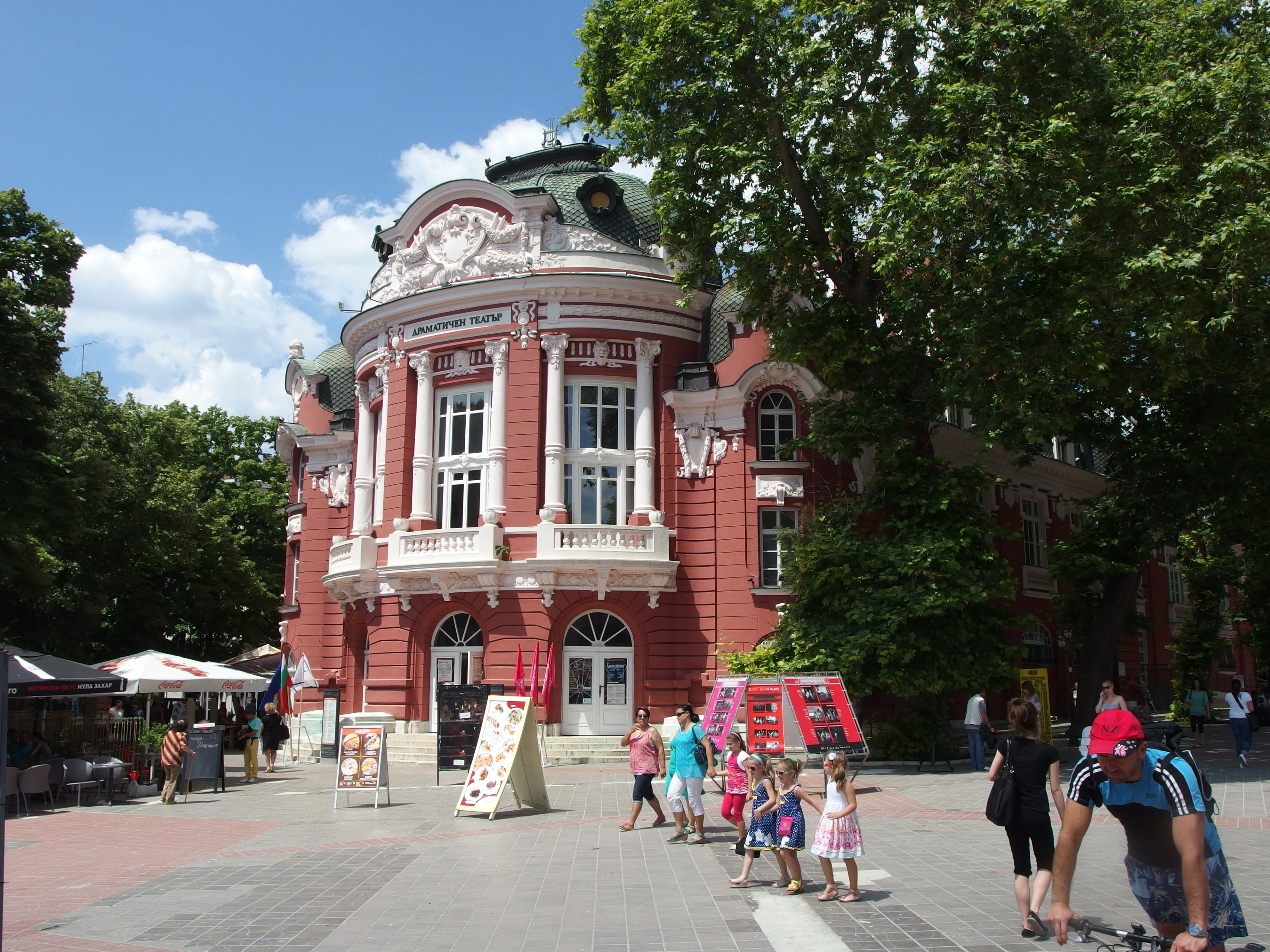 2014-06-10 in Varna.